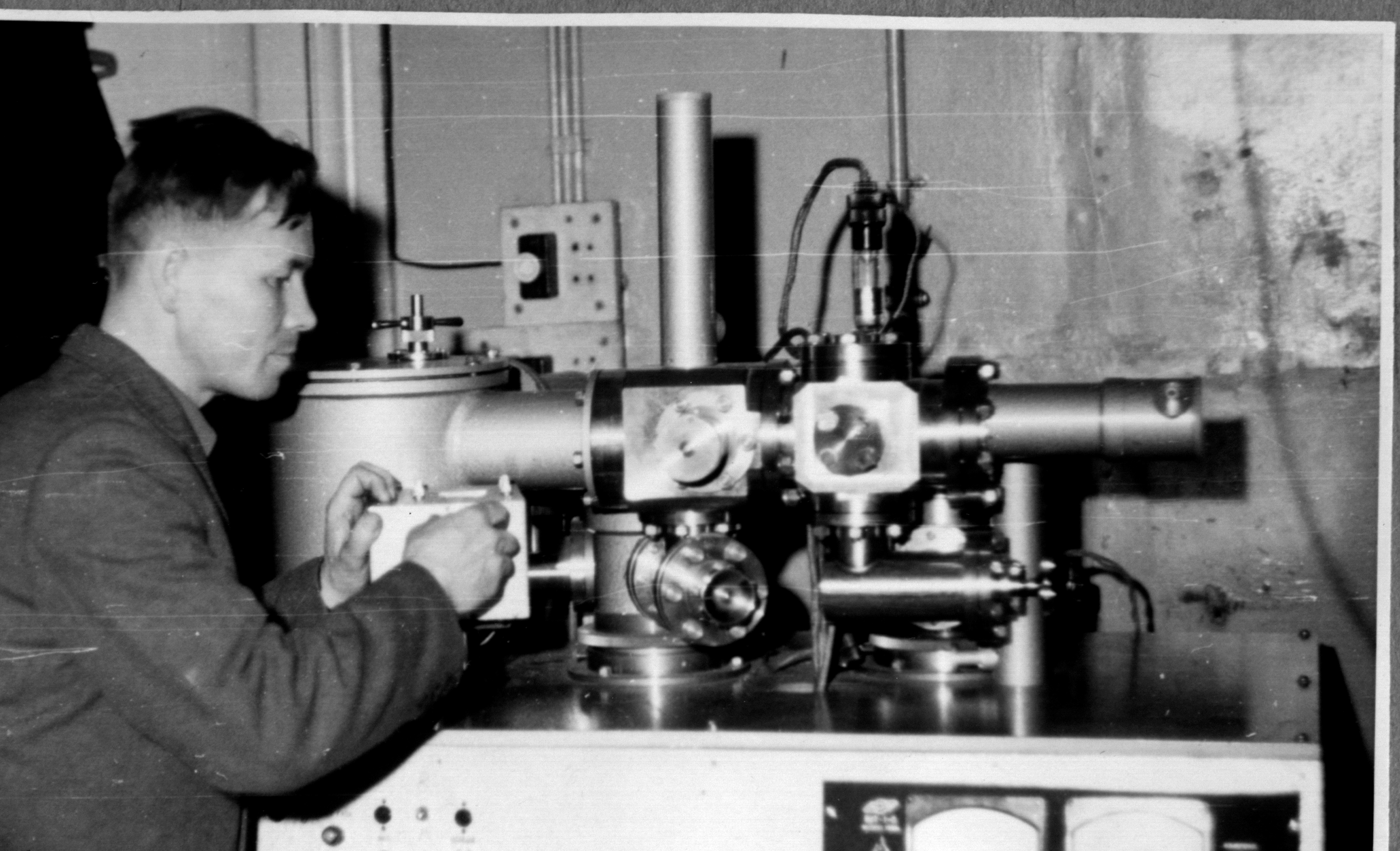 F. I. Vilesov at the UPS apparatus in 1963.